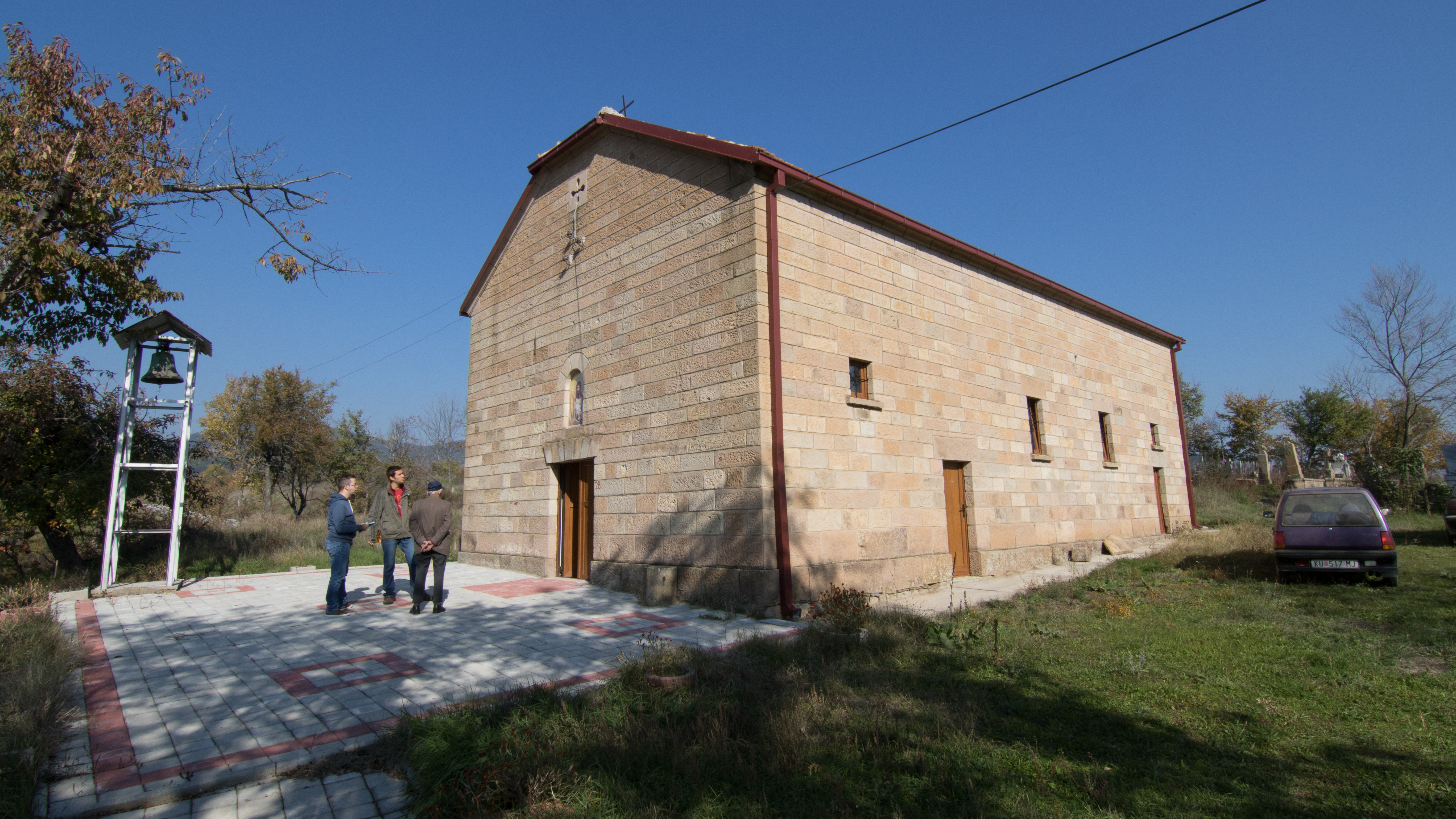 View of the St. John the Baptist Church in the village Otošnica